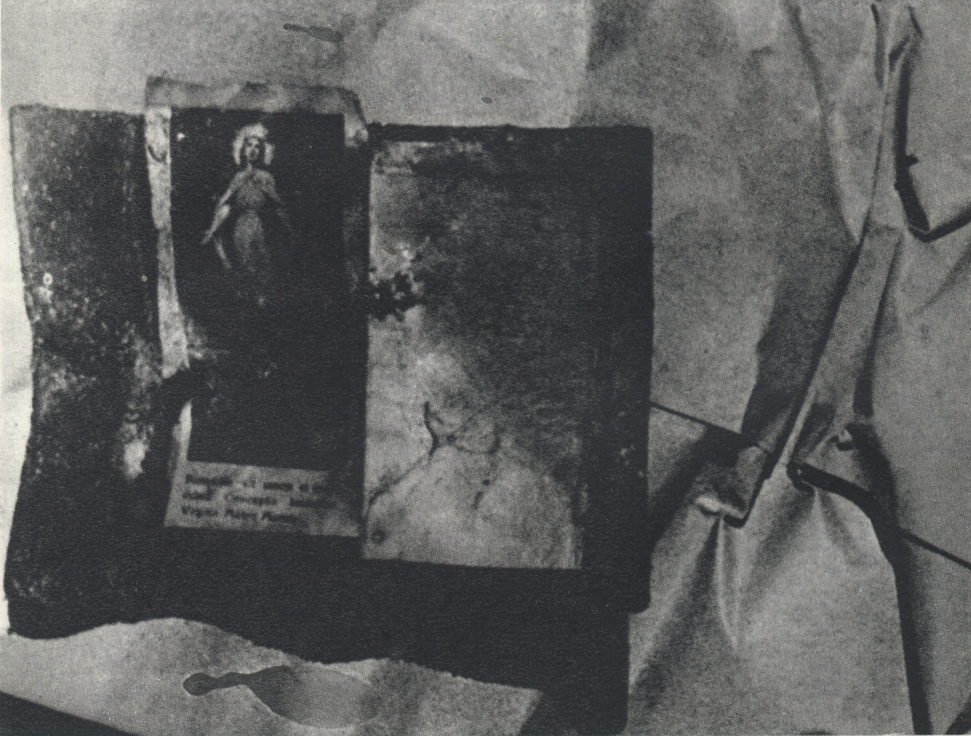 Exhumation of bodies of victims massacred by Nazi-Germans in Palmiry near Warsaw. This photo shows a documents which were found in the one of the mass graves. It is a religious image and a piece of paper with a sentence: “Edmund (the surname is illegible)” 17.VII.1941 executed.